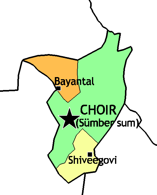 Map of the Govisumber aimag with the sums